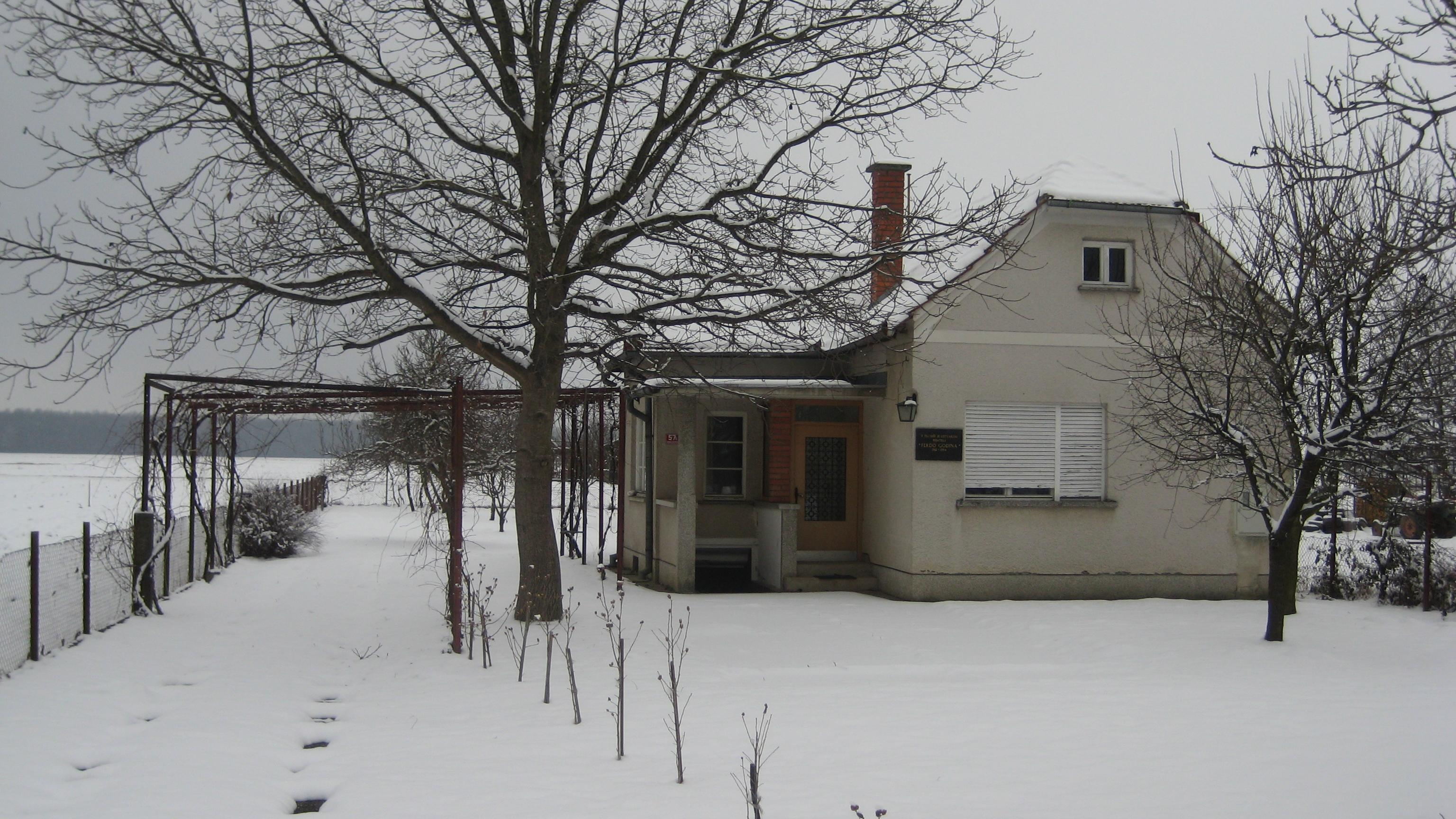 House of Ferdo Godina, Slovenian writer